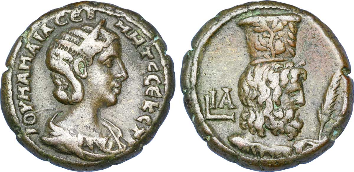 Tétradrachme à l'effigie de Julia Mamaea Description revers : Buste de Sérapis, coiffé du modius, vêtu de l’himation ; une palme devant.